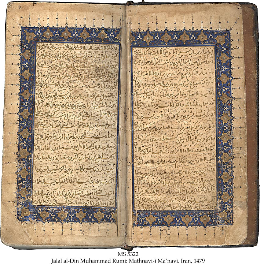 Manuscript in Persian on paper, Shiraz, 1479, 358 ff. (complete), 22x11 cm, 2 columns, (18x9 cm), 19 lines, + 39 lines written diagonally in the margins, in Nasta’liq and Naskhi scripts by Hussain ibn Shaikh ‘Ali, inter-columnar and inner and outer margins ruled in gold, headings and corner sections written in gold with cloud banks or in white script on gold ground with floral motifs in green and blue, preface with gold Nasta’liq script on a ground of white clouds with borders illuminated in gold and colours, numerous ownership inscriptions and 17 seal impressions, including some from the Imperial Mughal Library.